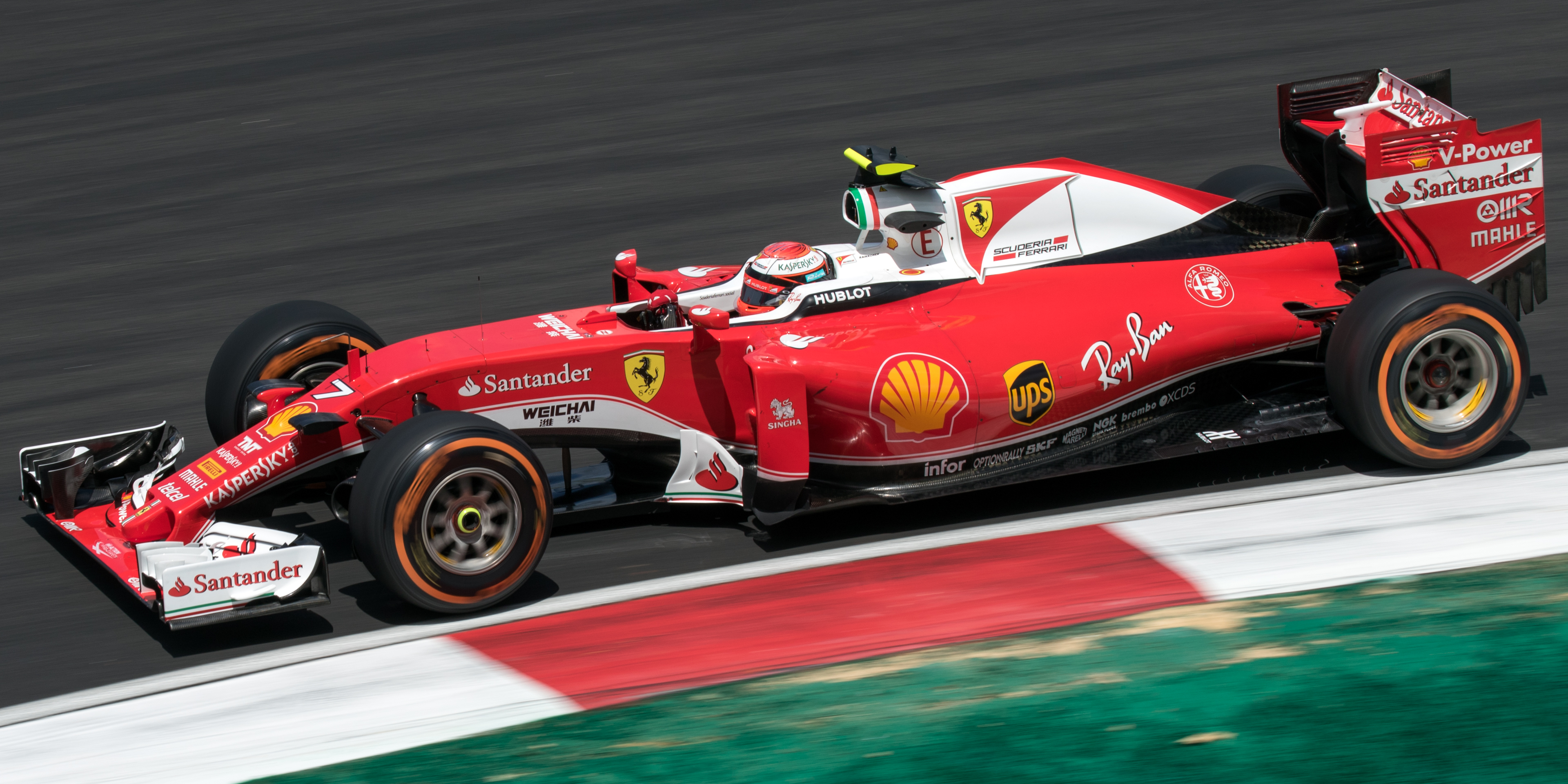 Formula One 2016 Rd.16 Malaysian GP: Kimi Räikkönen (Ferrari)